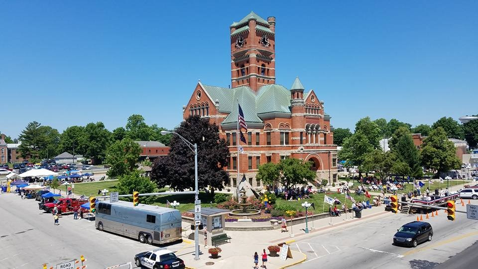 Albion has served as the county seat for Noble County in Northeast Indiana since 1847.